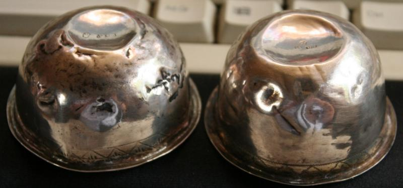 Two Swedish silver cup made by Johan Jacob Ulfsberg 1793-1824 in Nyköping